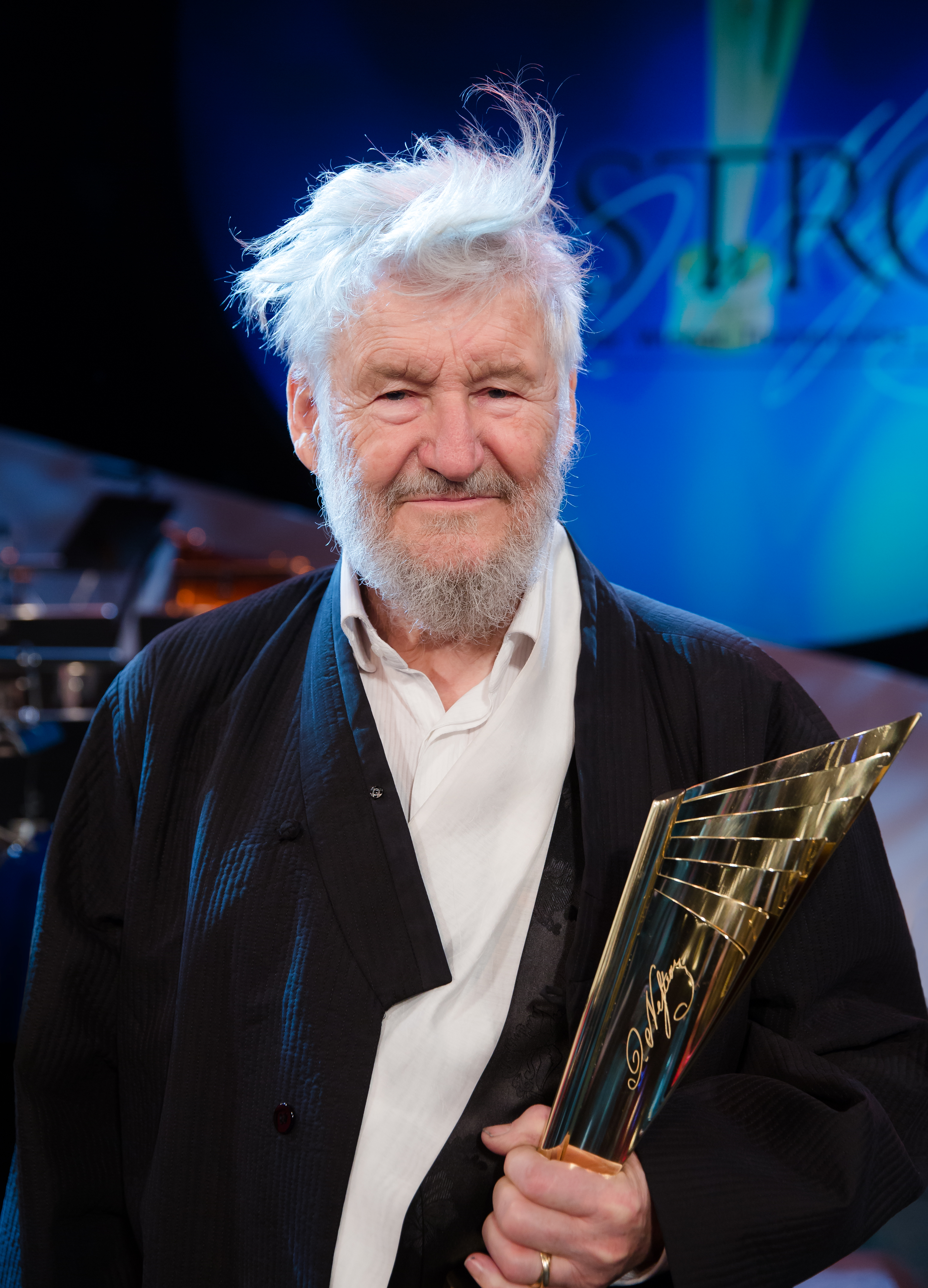 Achim Freyer with the award for his lifetime achievements at the Nestroy Theatre Awards 2015 (Ronacher, Vienna, Austria).